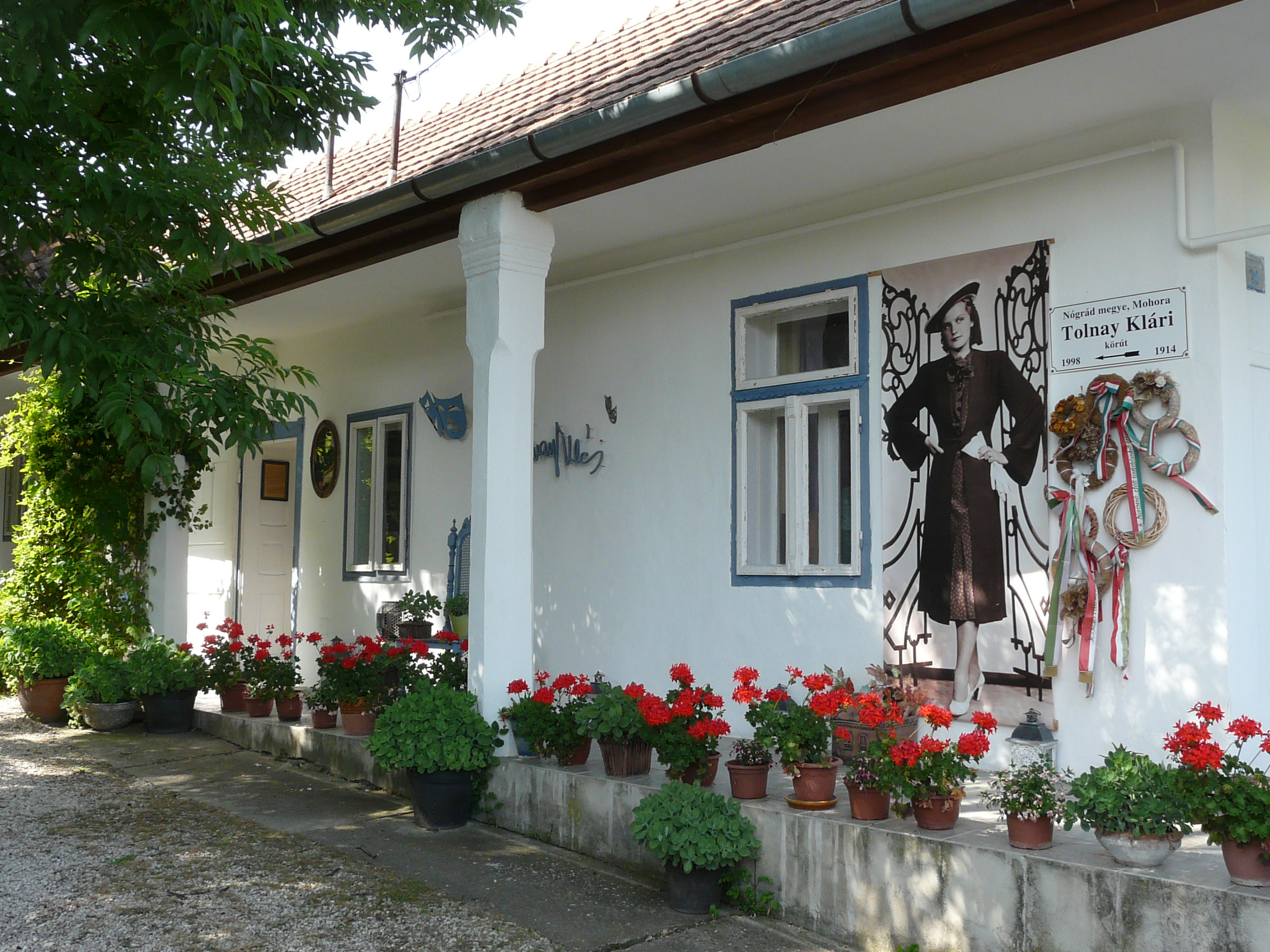 (actress) Klári Tolnay Memorial House, village Mohora, Hungary (2019)